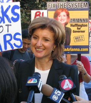 Caption: Arianna Huffington talks to the media while campaigning for governor of California at UC Berkeley on September 11, 2003. Credit/Copyright: Photograph taken on September 11, 2003 by Minesweeper and released under terms of the GNU FDL. See also: Larger, uncropped version